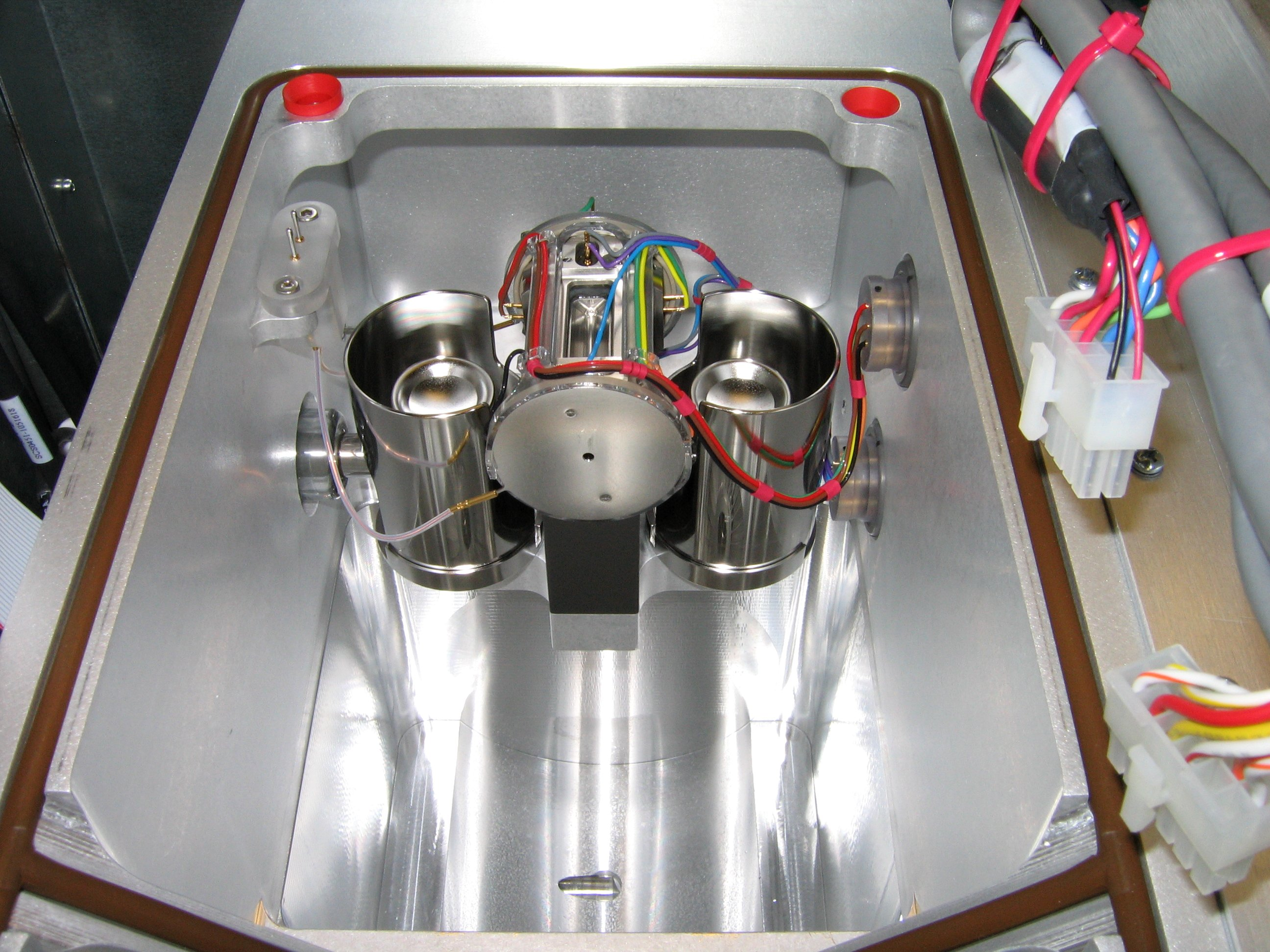 With the top cover removed, the ion trap itself and the detector dynodes can be seen in this shot from the front of the instrument.